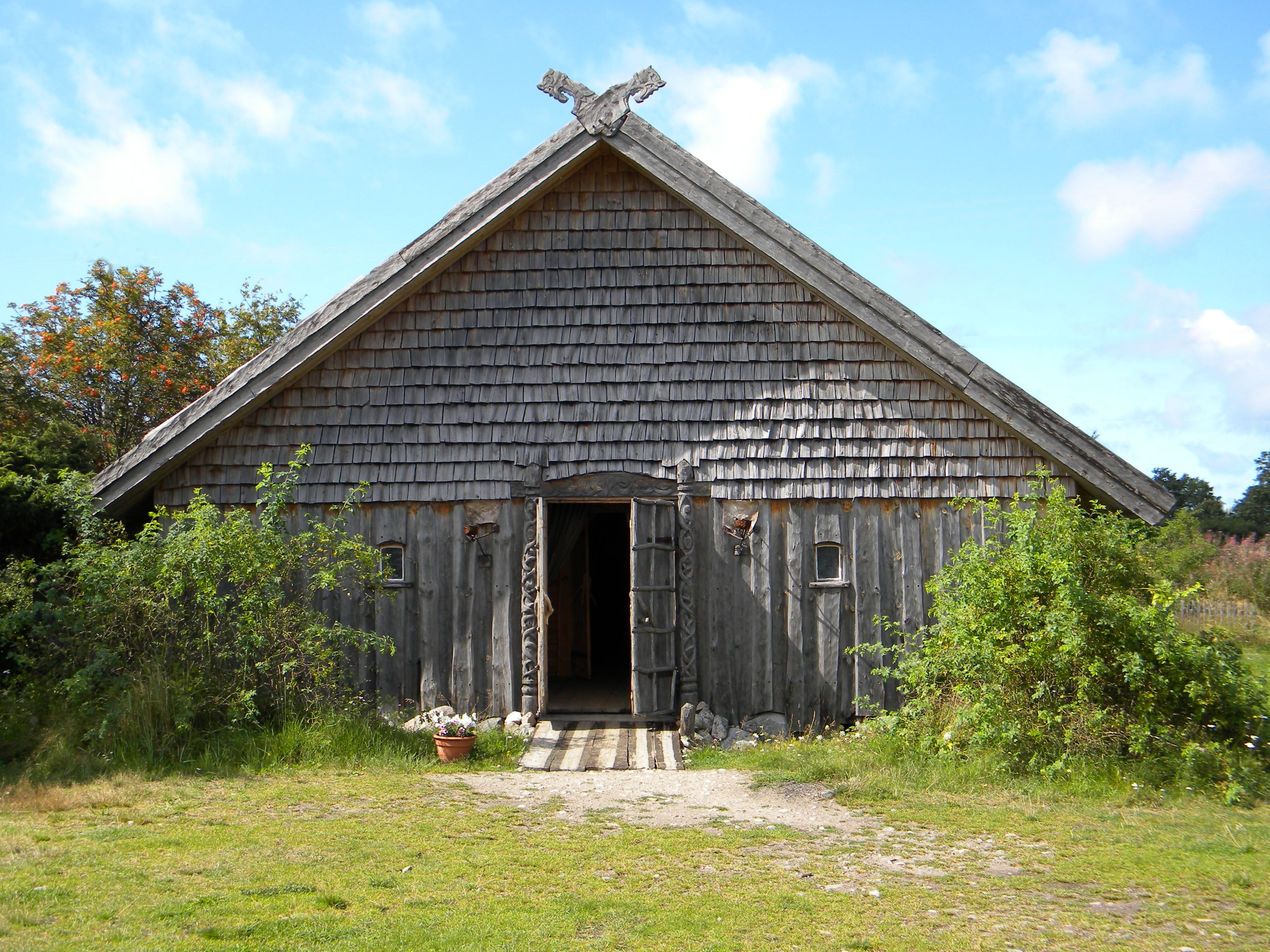 Chieftain Hall Rodeborg built in the Rosala Viking Center in Finland. Viking age artifacts have been found on the islands of Rosala and Hitis in the Southern Finland.